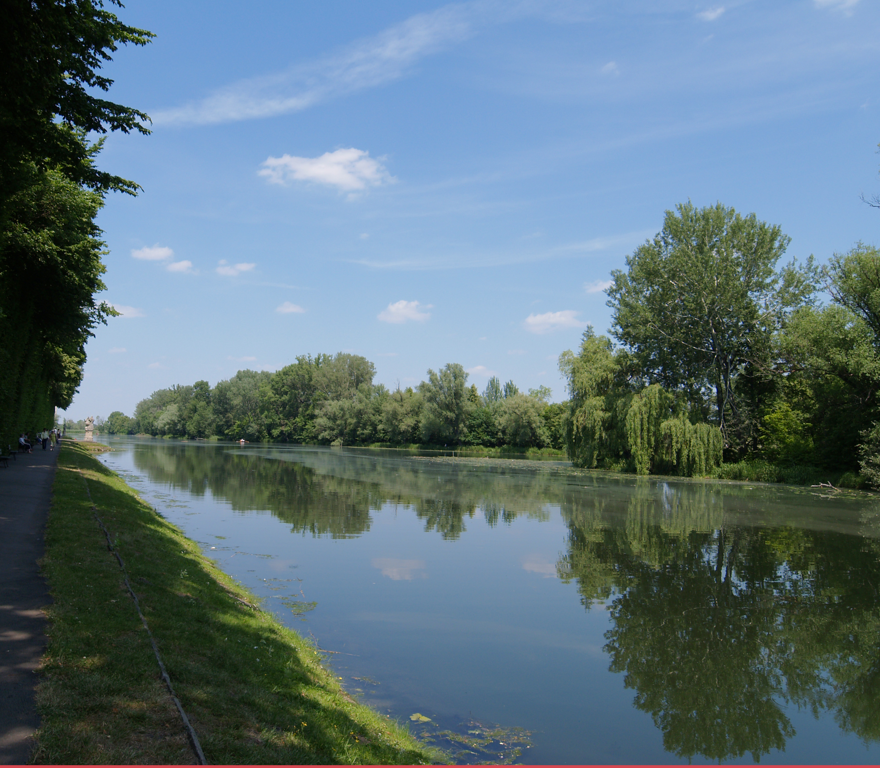 The park of Wilanow Palace at Warsaw, Poland